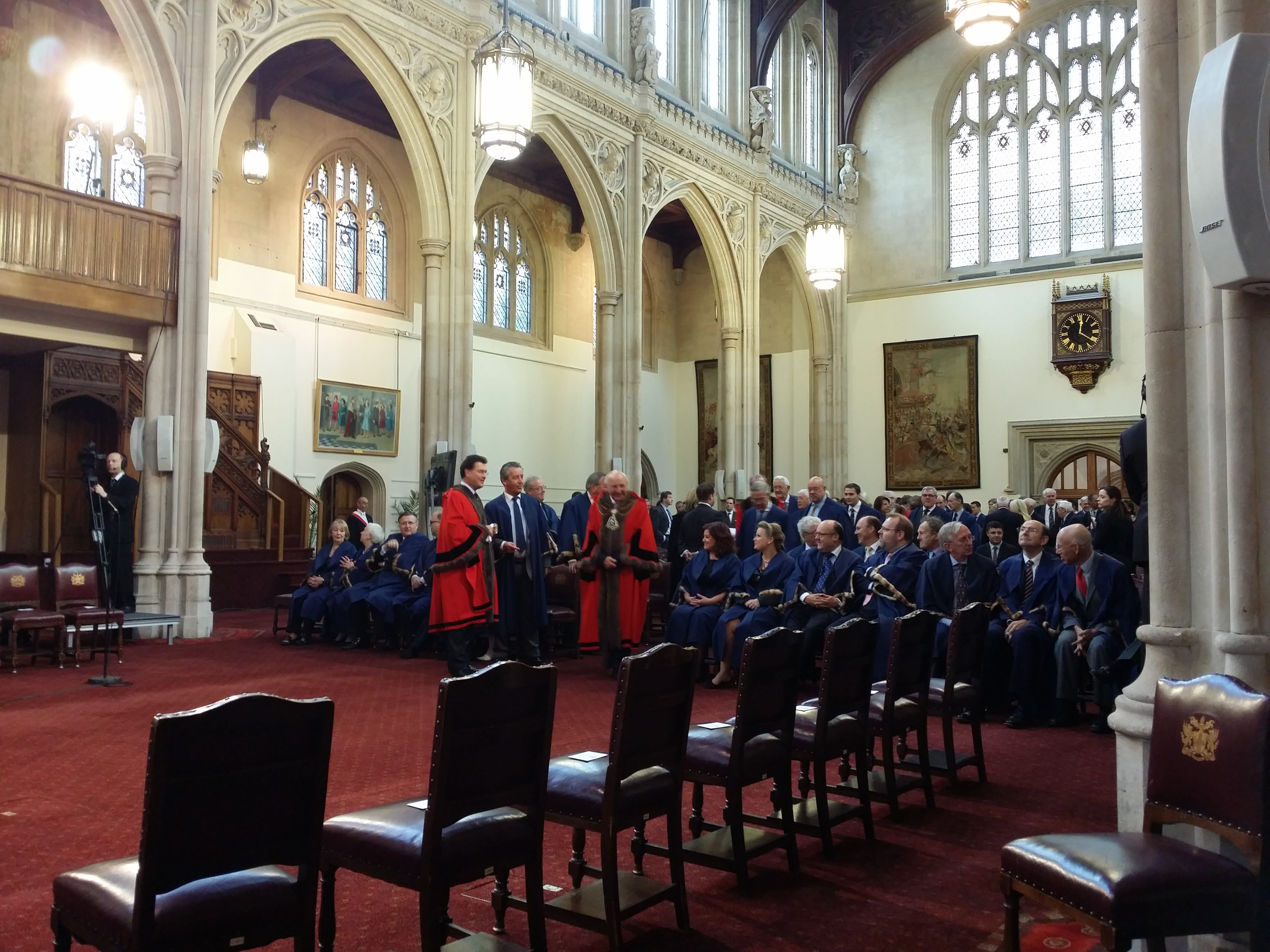 Tim Berners-Lee receiving an honorary Freedom of the City of London.